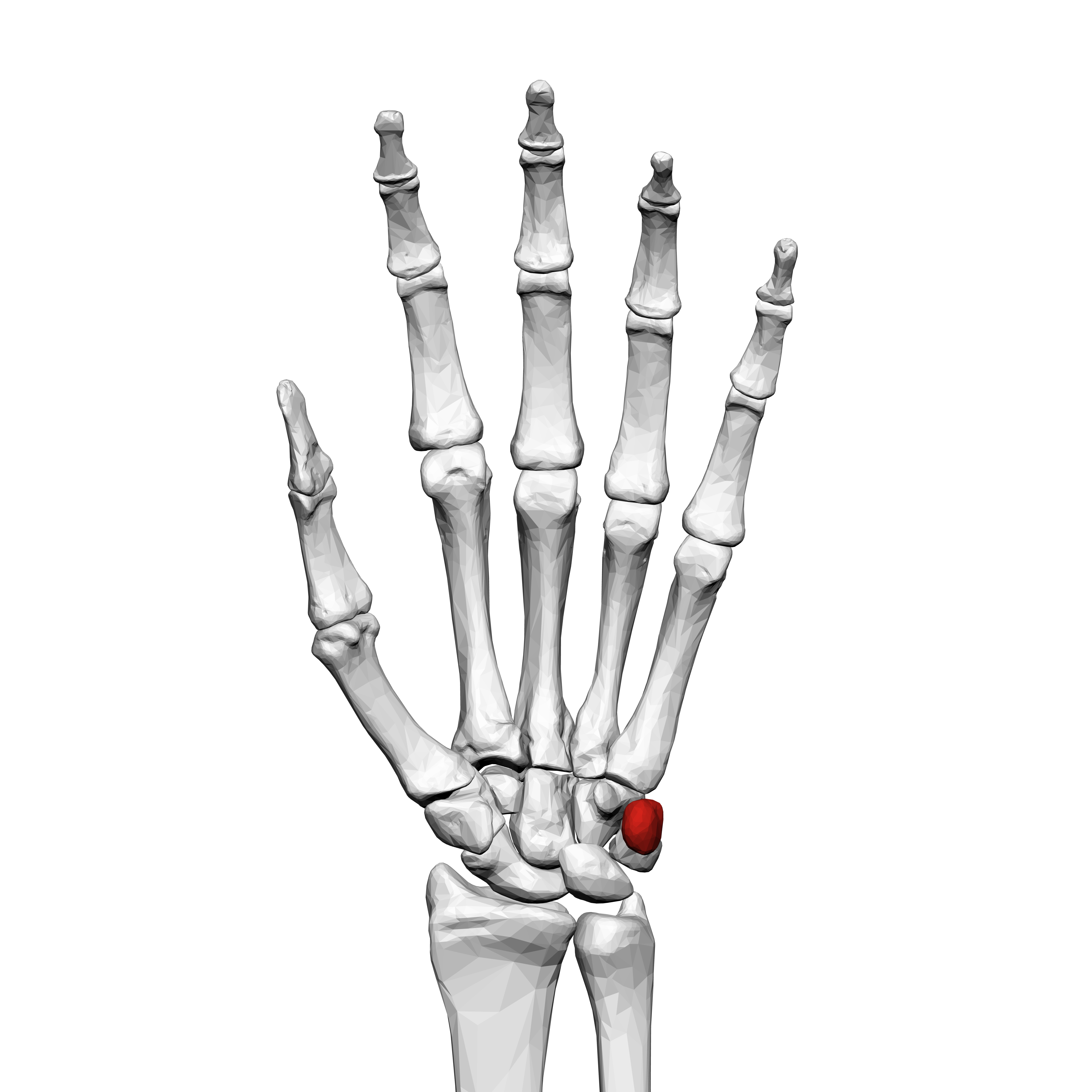 Pisiform bone (shown in red).